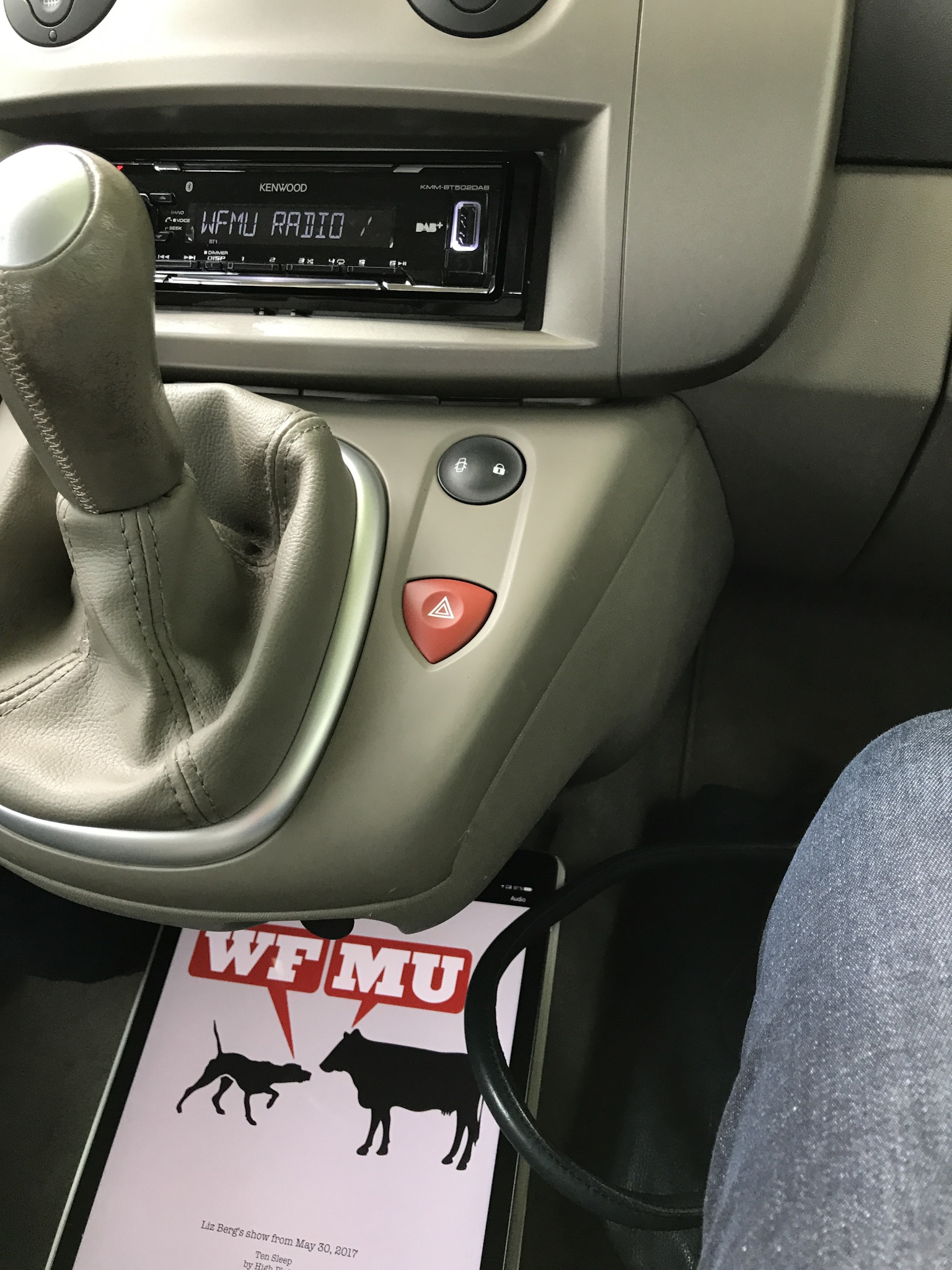 Listening to the US American non-commercial freeform radio station WFMU in a car via Bluetooth.